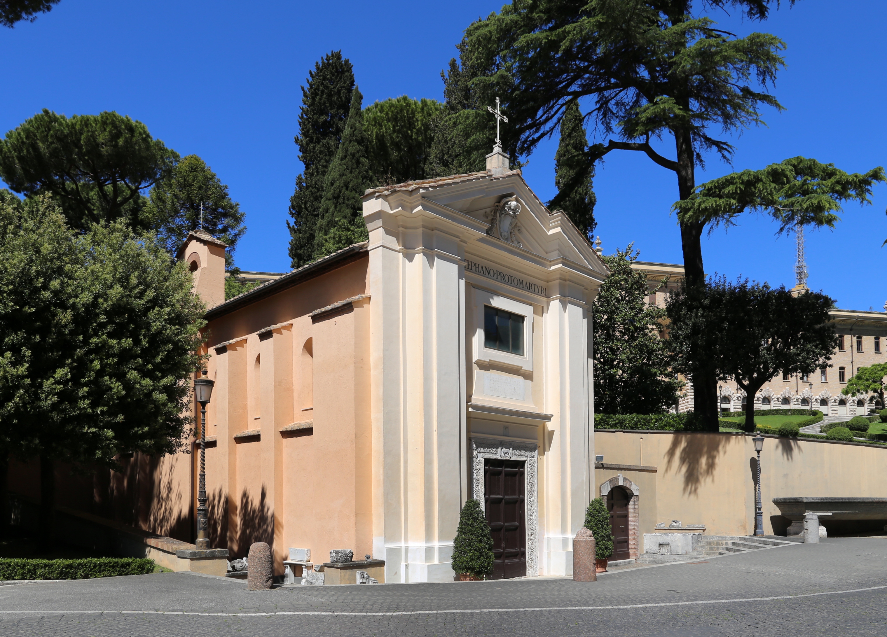 Gardens in the Vatican City